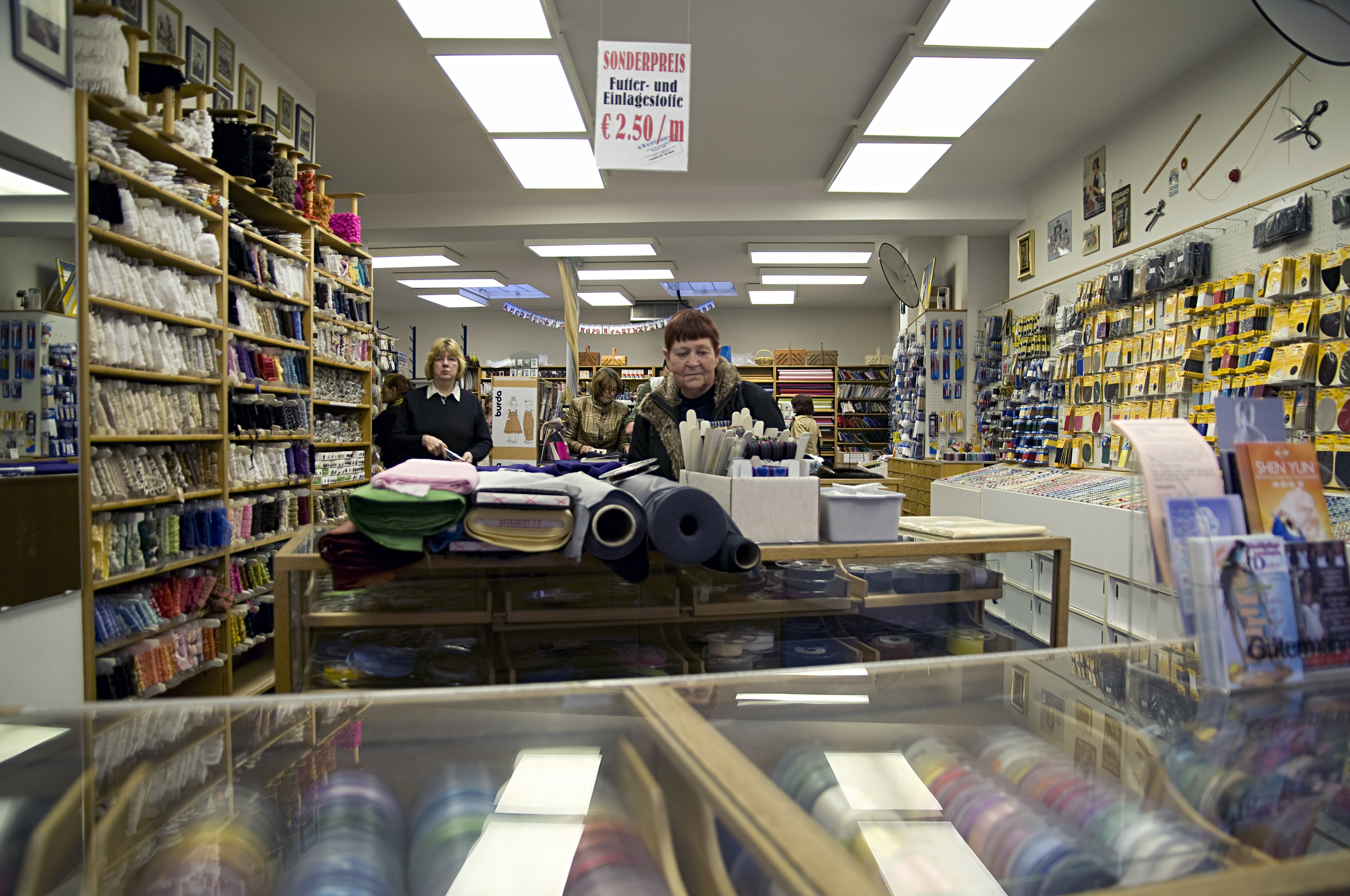 Haberdashery W. Wächterhäuser in the Töngesgasse 39 in Frankfurt am Main